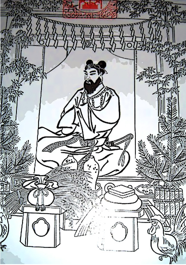 Toshigami (Otoshi-no-kami)